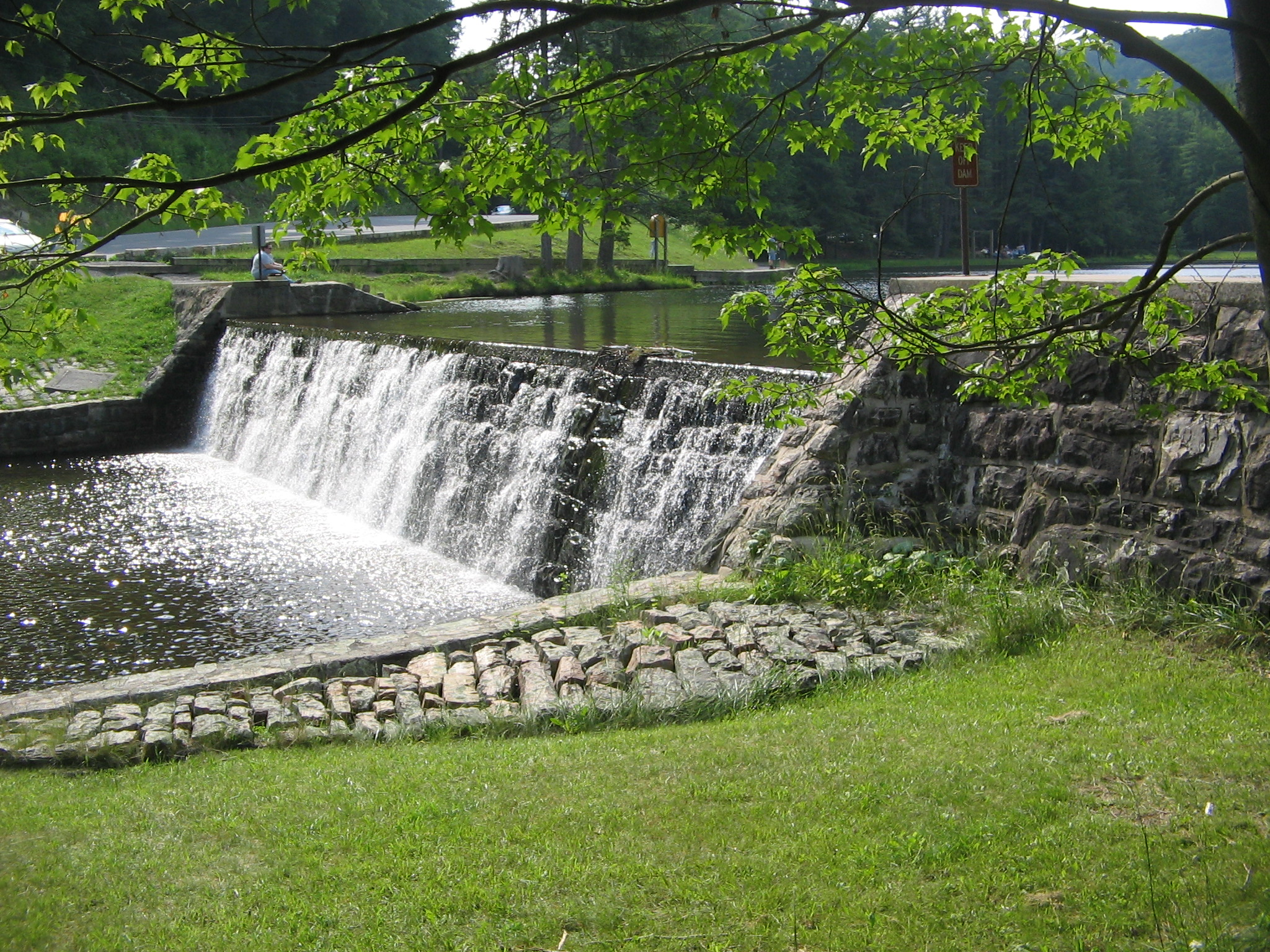 CCC-built dam on Halfway Lake at R.B. Winter State Park in Union County, Pennsylvania in the United States